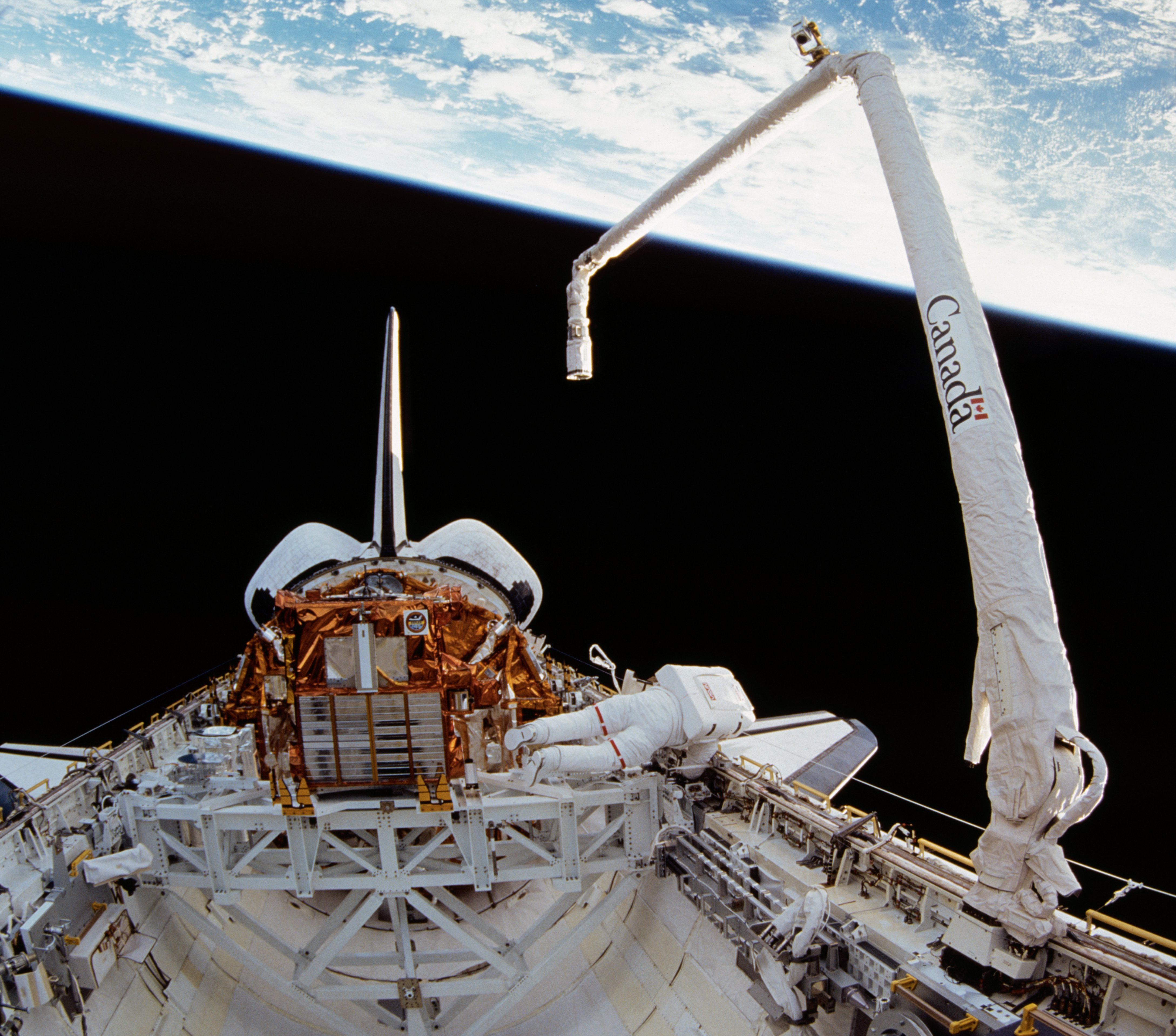 STS-72 Mission Specialist Winston Scott (EV3) installs a thermal cube in preparation for Detailed Test Objective (DTO) 833 - Extravehicular Mobility Unit (EMU) Thermal Comfort. These views were taken with a 35mm lens on the Hasselblad camera to give a fisheye effect. The remote manipulator system (RMS) is raised above the payload bay. Both the Japanese Space Flyer Unit (SFU) and the Office of Aeronautics and Space Technology-Flyer (OAST-Flyer) are berthed in the payload bay. The earth limb provides a backdrop. ID: STS072-722-041